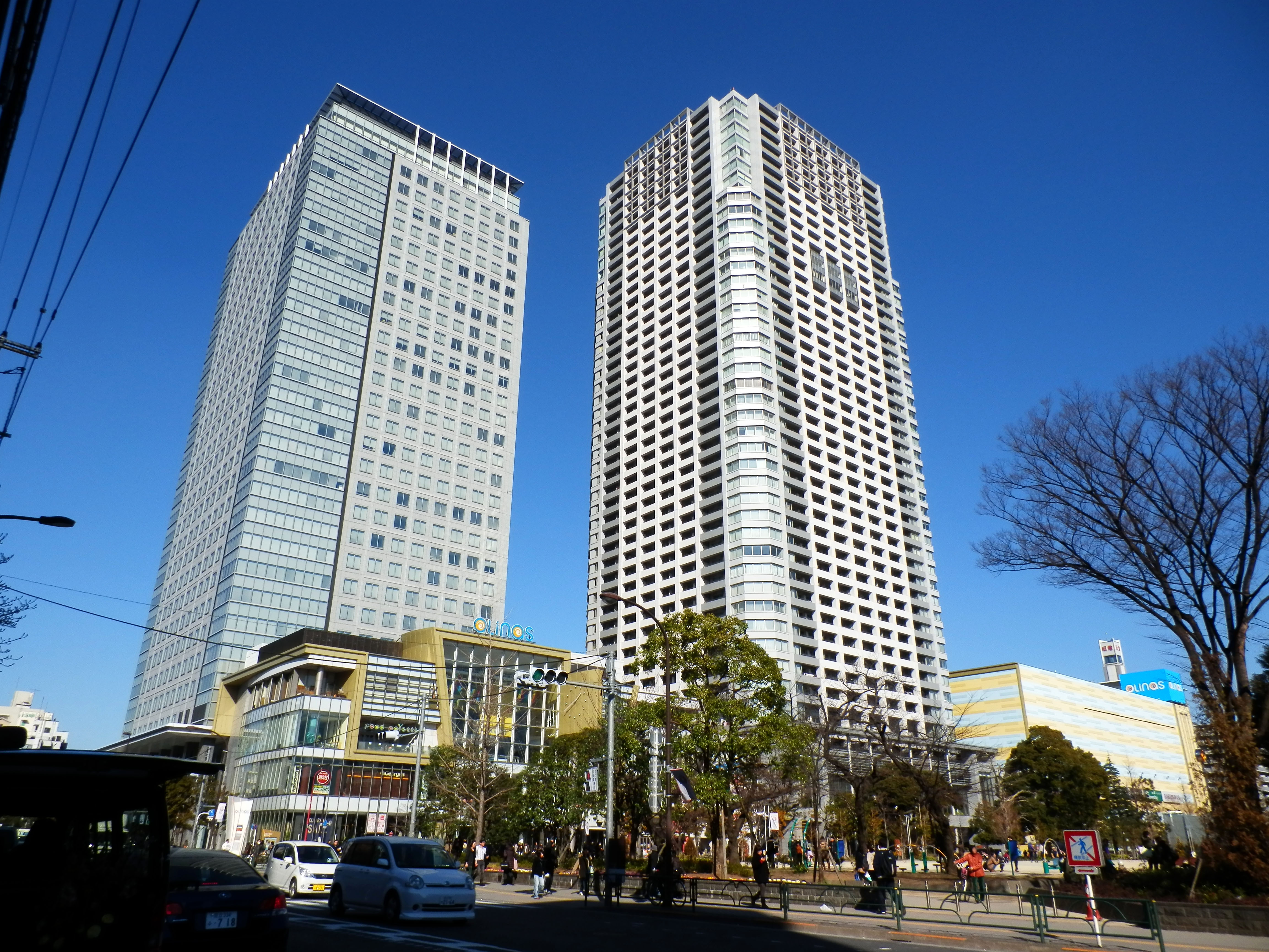 Olinas (Composite facilities in Tokyo, Japan)